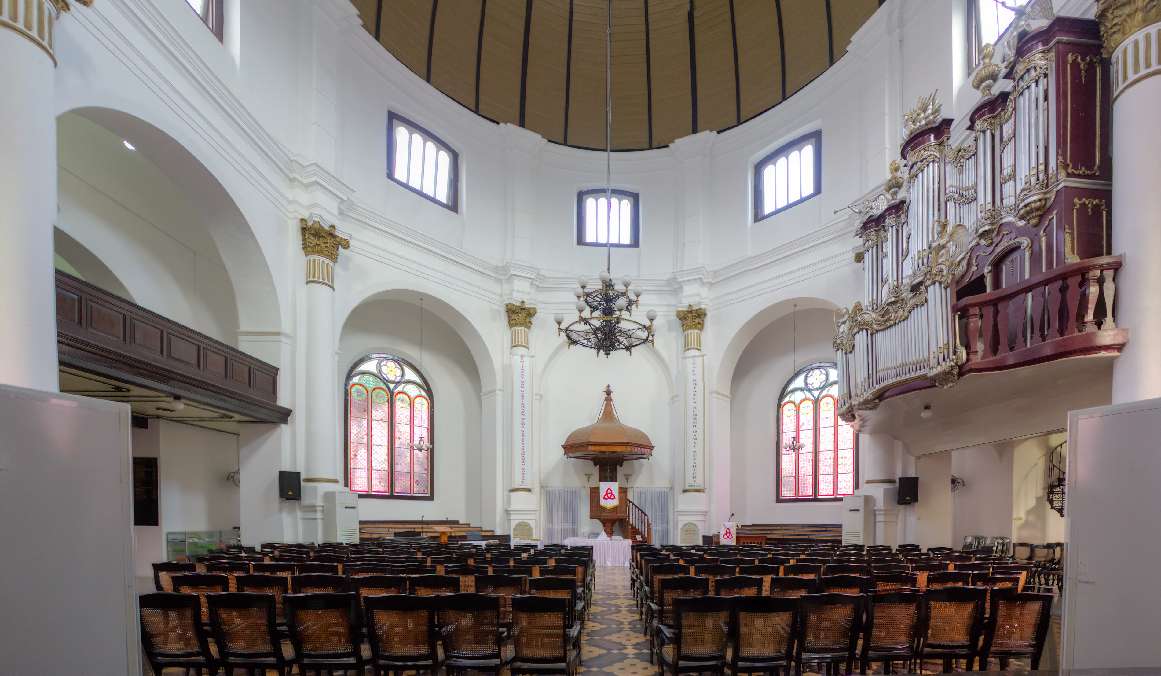 Interior of Blenduk Church, Semarang, 2014-06-19. This pseudo-HDR image was stitched from 60 source images then downsampled to reduce noise.